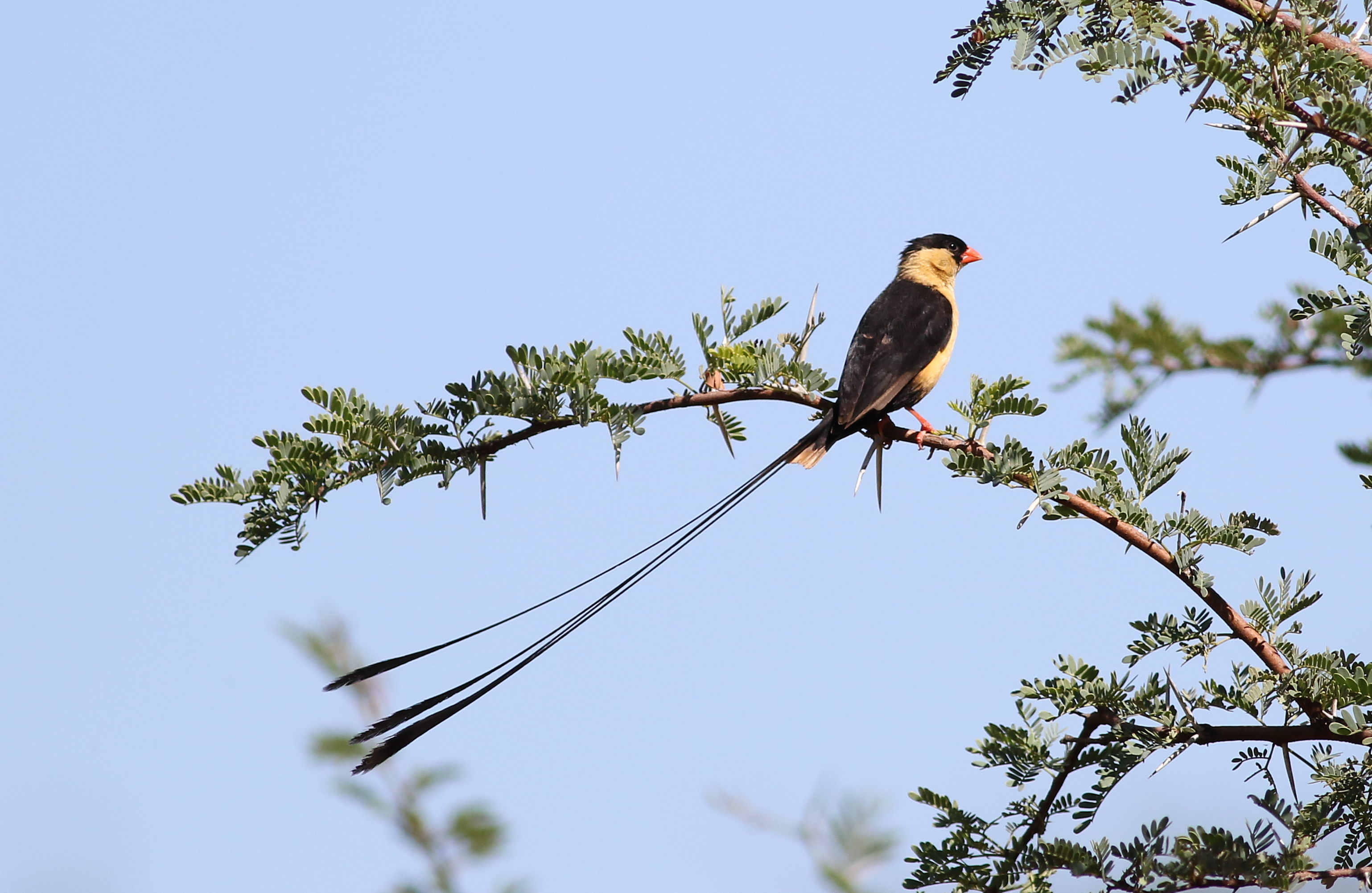 Shaft-tailed whydah, Vidua regia, at Pilanesberg National Park, Northwest Province, South Africa